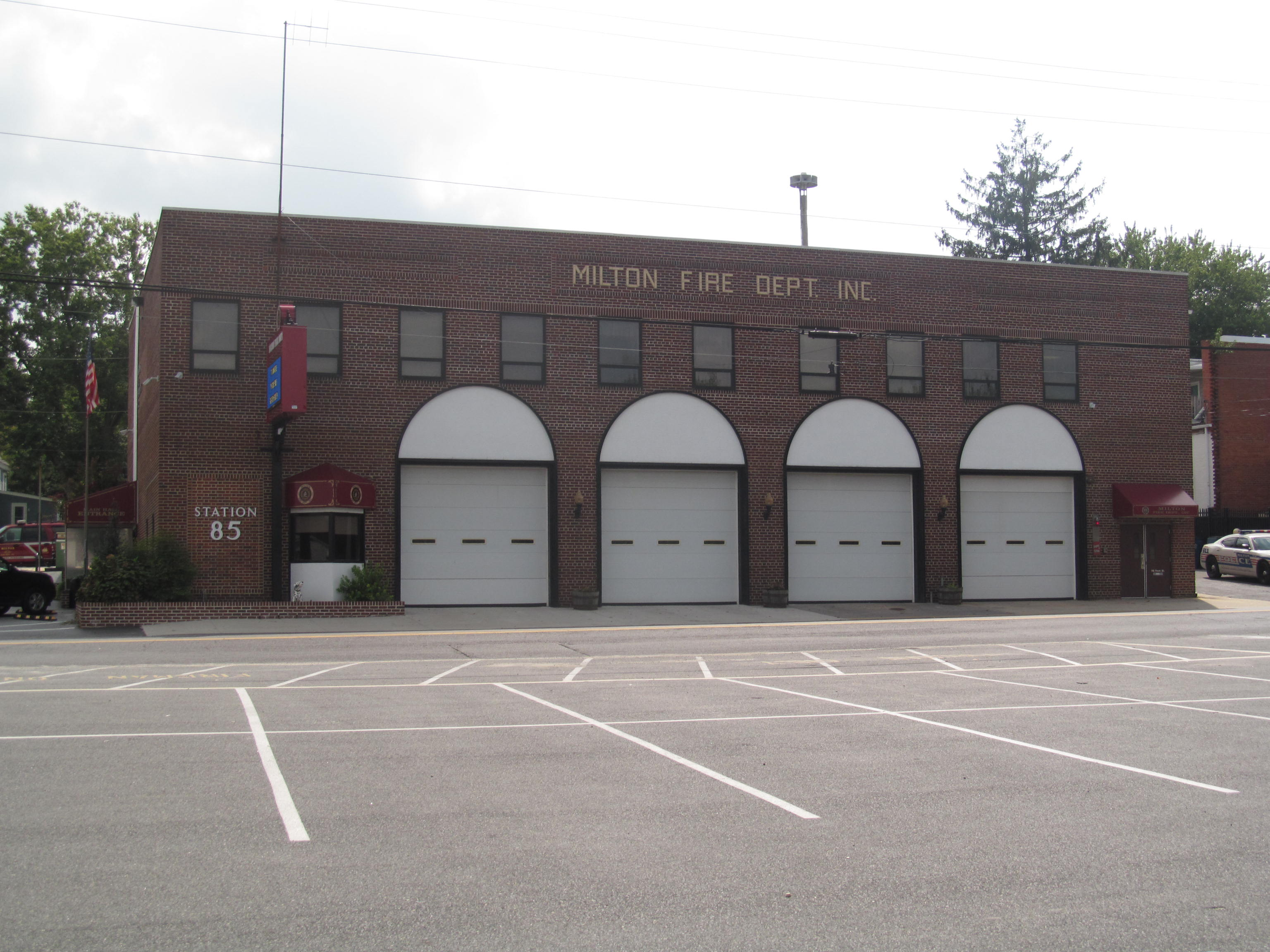 The Milton Fire Department was organized on November 14, 1901 and this modern station was built in 1949.